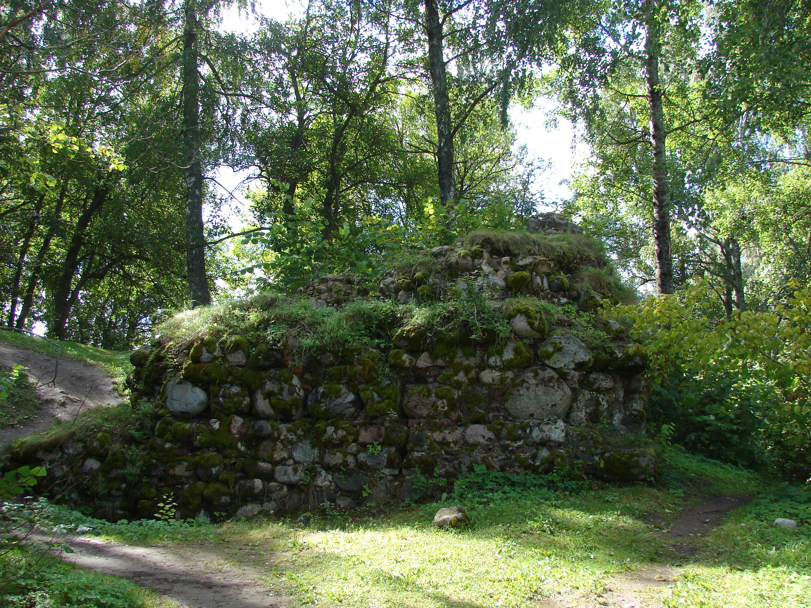 Castle Ruins Wolkenberg